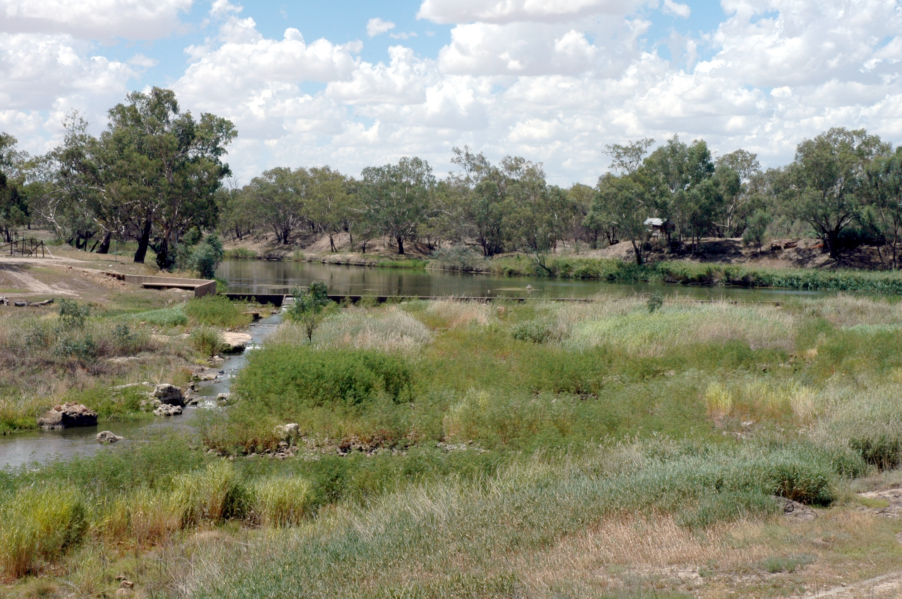 Aboriginal fish traps, Barwon River, Brewarrina, New South Wales Australia. The fish traps consist of river stones arranged to form small channels that direct the fish to a small area from which they can be readily plucked. The fish traps, which are believed to be many thousands of years old, are largely obscured by weed which sadly has been allowed to proliferate.